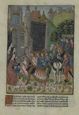 Lancelot fighting the lions near the well. Illumination from the 3rd volume of Lancelot Romance, as preserved in the Russian National Library.